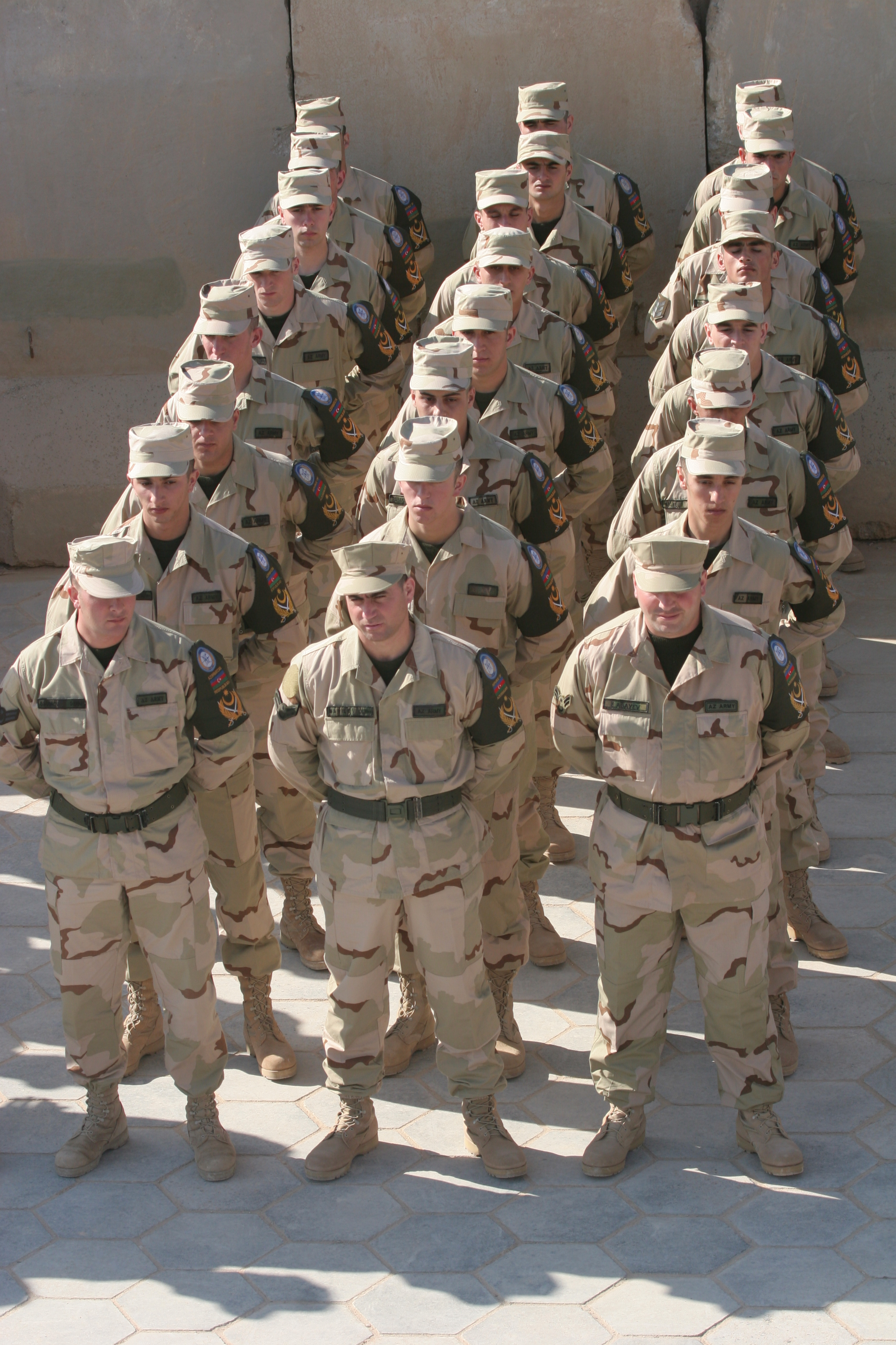 Soldiers of the Azerbaijani military stand in formation during a ceremony recognizing their contribution to Operation Iraqi Freedom at Camp Ripper, Al Asad, Iraq, Dec. 3, 2008. The Azerbaijan forces provided security at the Haditha Dam since August of 2003. VIRIN: 081203-M-8299S-057